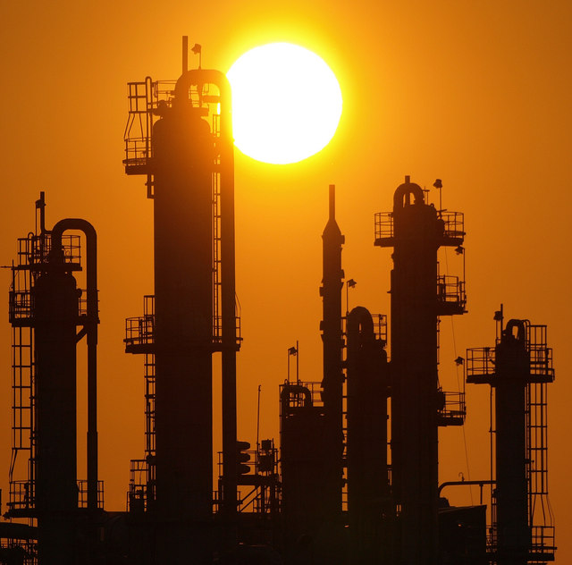 Distillation Columns at Salt End, East Riding of Yorkshire, England.Several clumps of columns occupy the Saltend site six miles east of Hull.